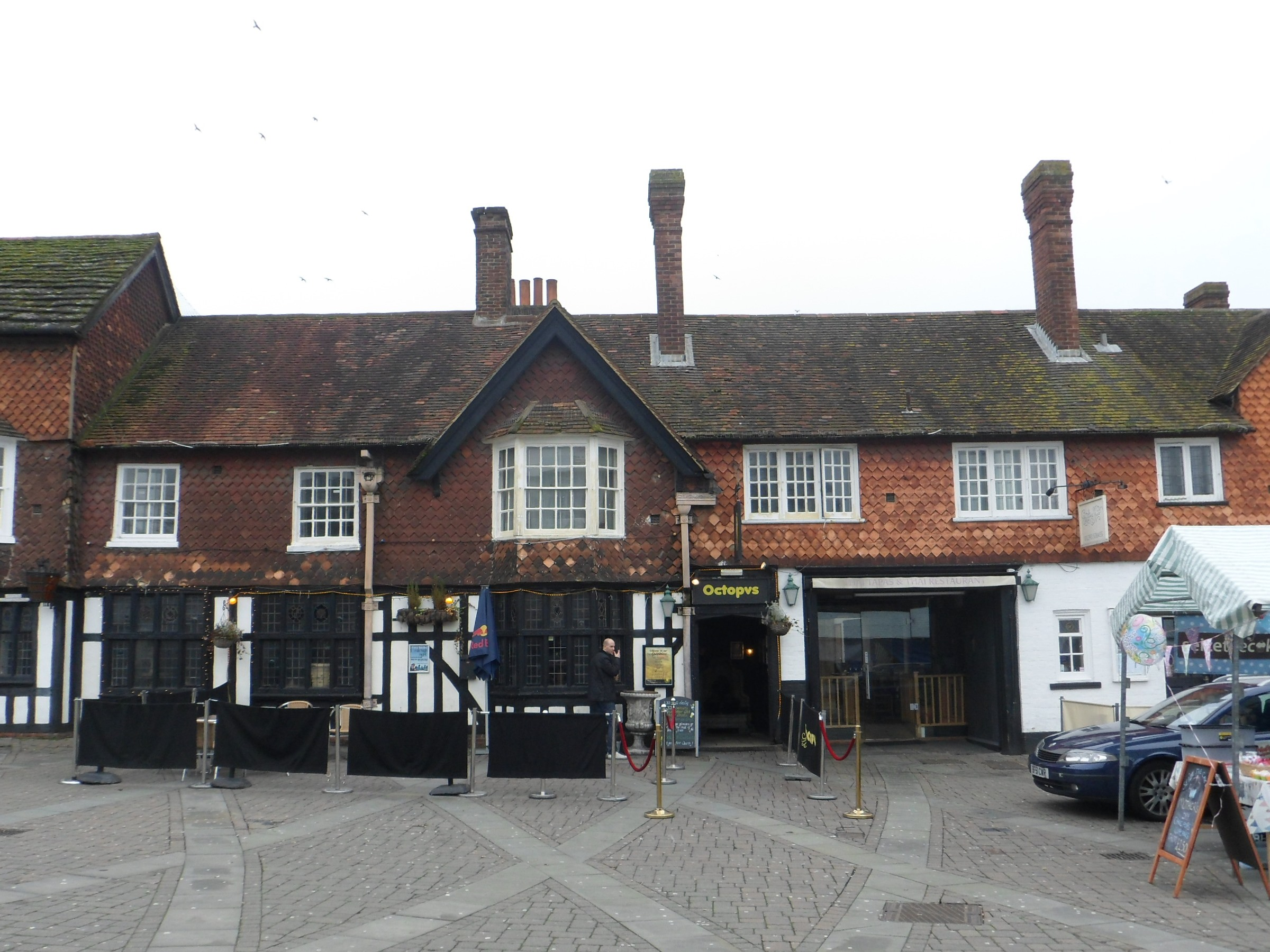 The George Hotel, High Street, Crawley, West Sussex, England. A medieval coaching inn which has expanded greatly since it was first documented in 1579.